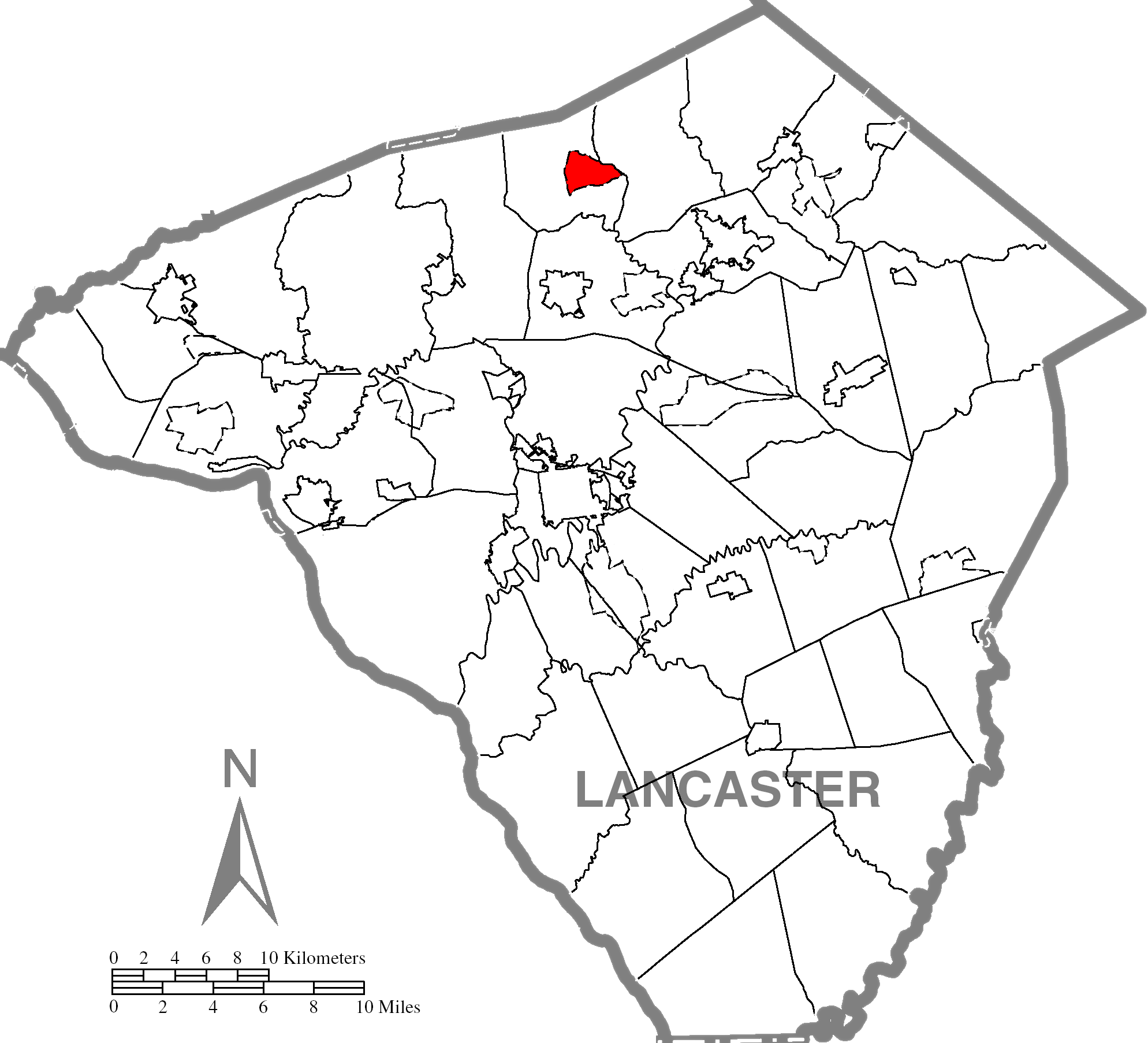 Highlighted Lancaster County map of Brickerville.